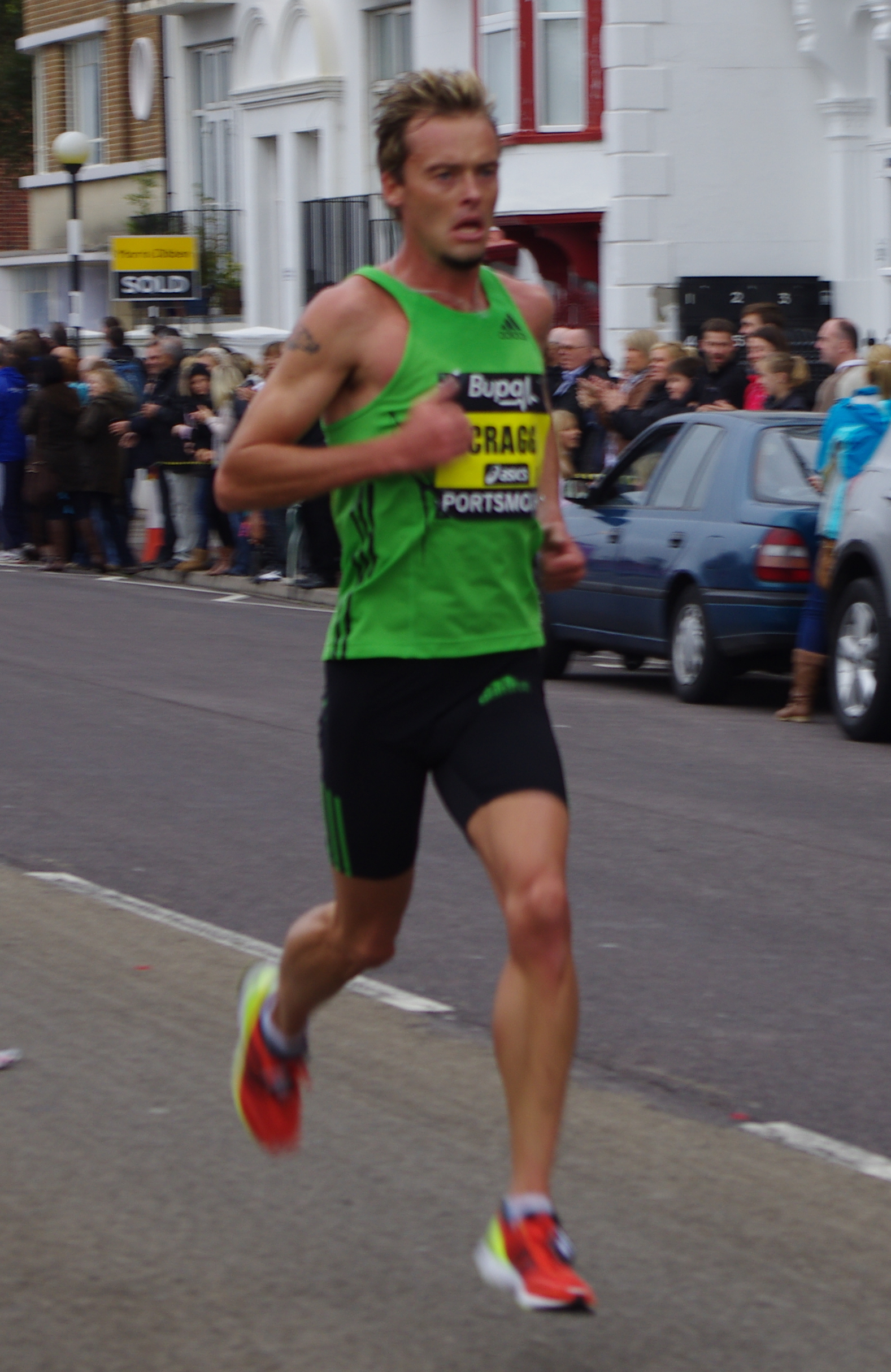 Alistair Cragg half way round. He finished third. Great South Run, 30 October 2011, Portsmouth.